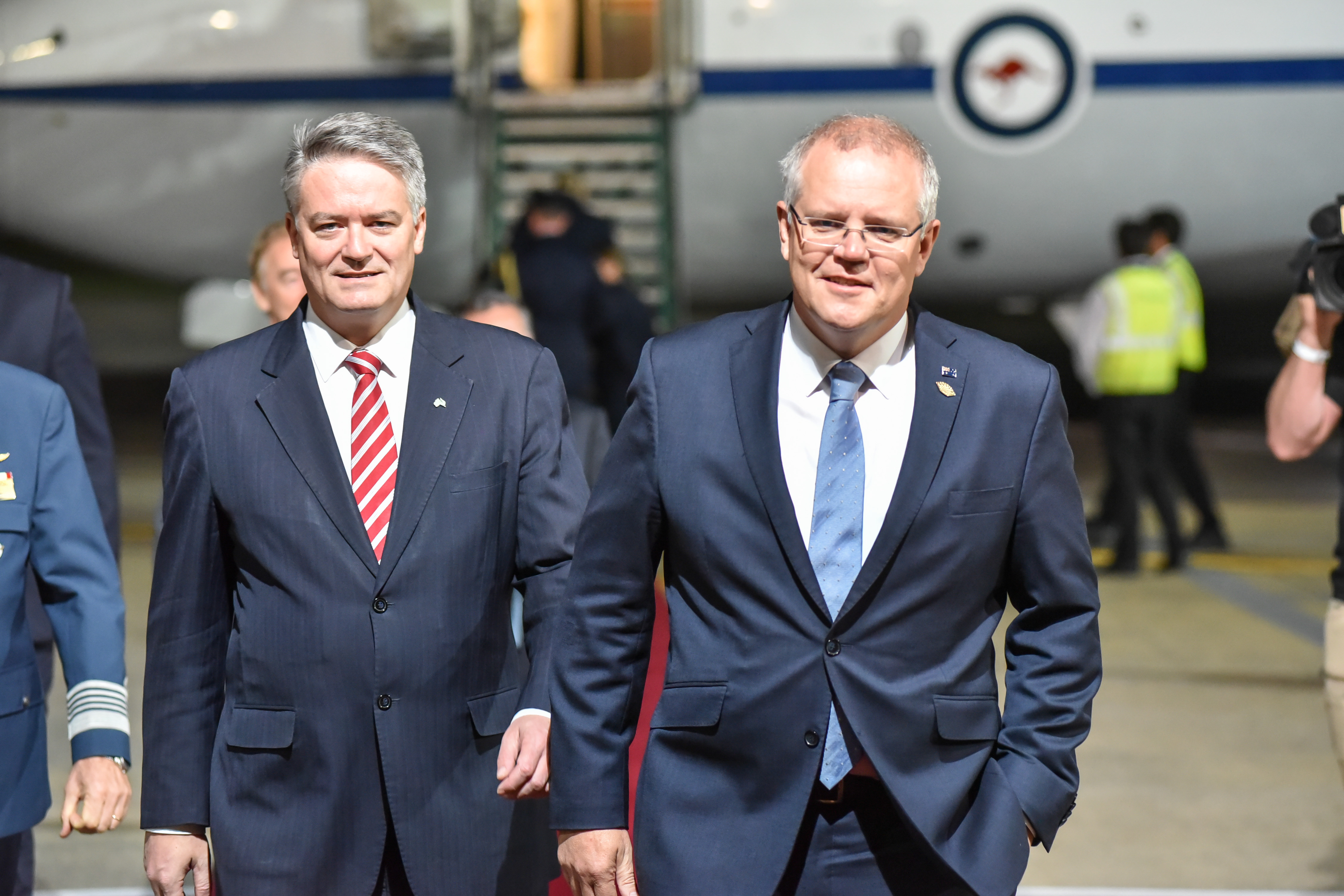 Arrival of Scott Morrison, Prime Minister of Australia